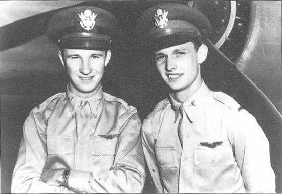 Kenneth M. Taylor and George Welch shortly after the Pearl Harbor attack